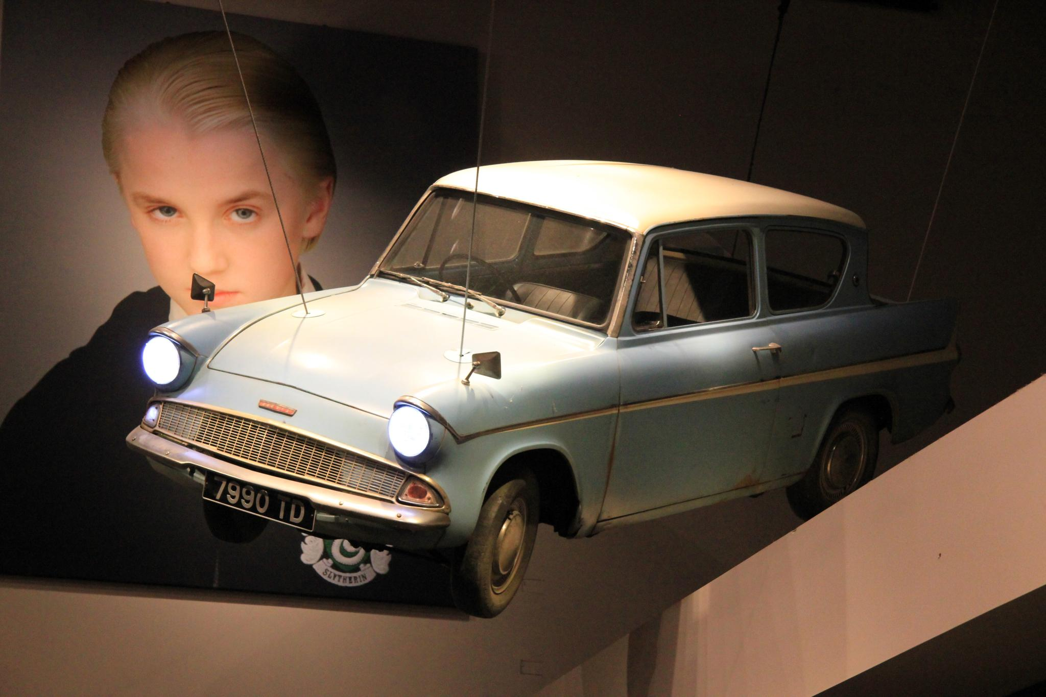 Warner Bros. Studio Tour London: The Making of Harry Potter.